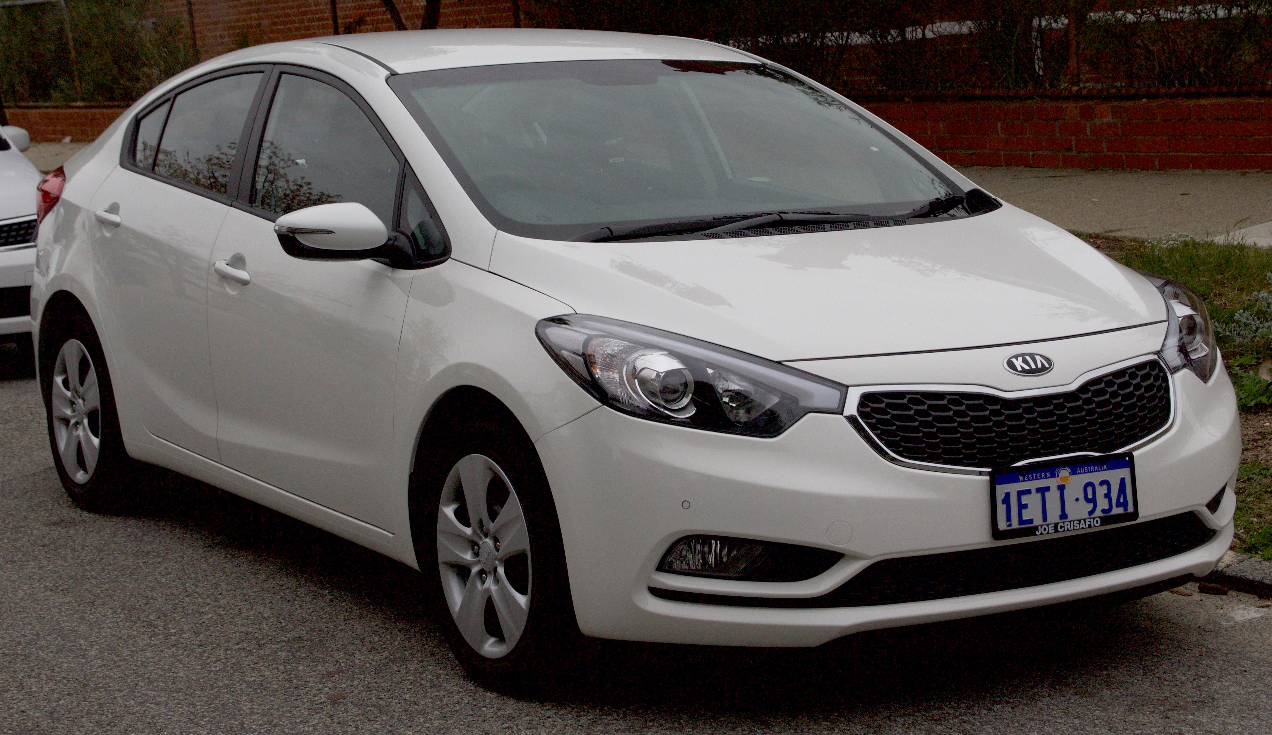 2015 Kia Cerato (YD MY15) S sedan. Photographed in West Leederville, Western Australia Australia.